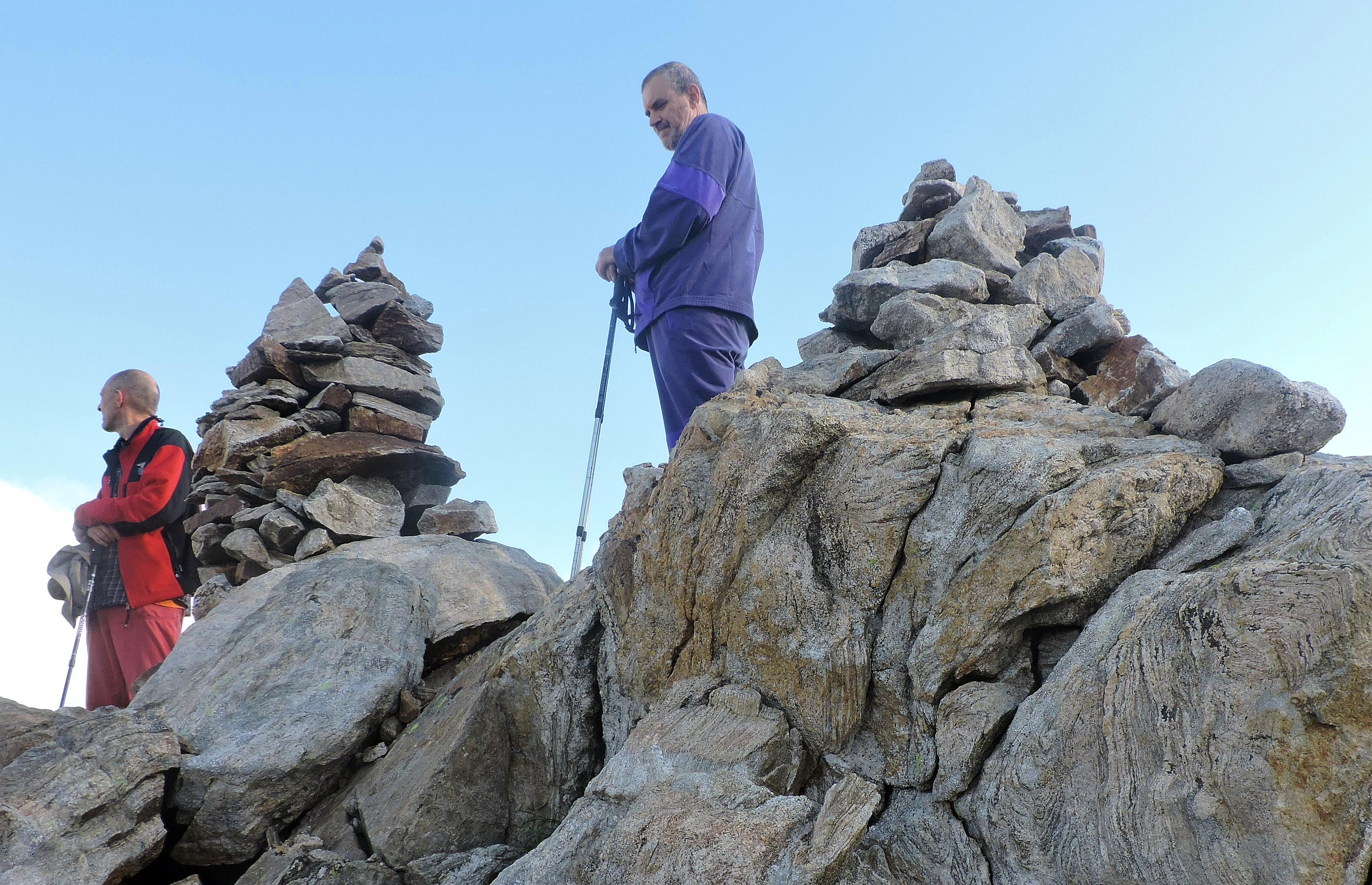 Cima Pagarì (French-Italian Border): hikers on the summit